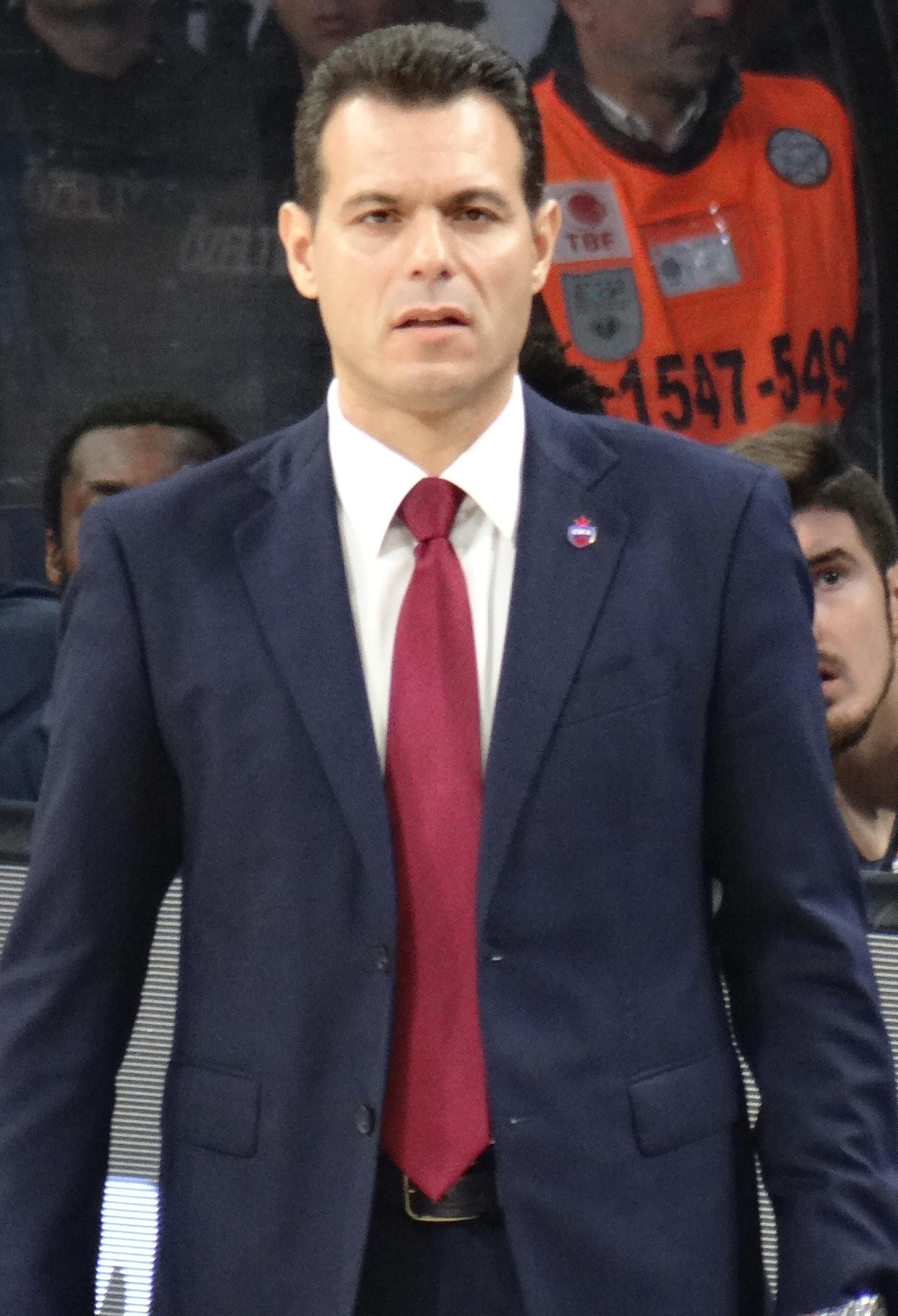 Dimitrios Itoudis PBC CSKA Moscow 20171027